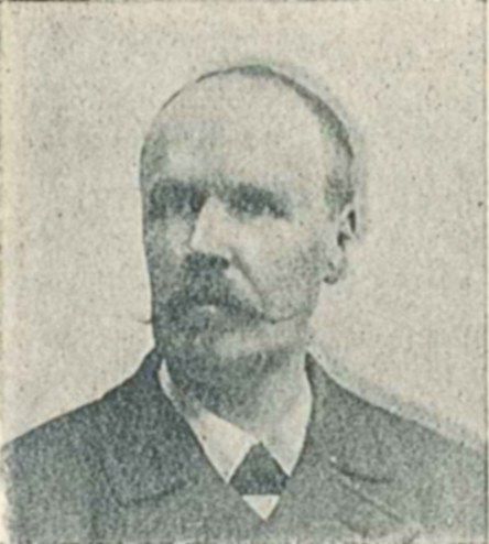 Swedish politician Johan Hjelmerus. From page 10 of an album featuring portraits of all the members of the second chamber of the Swedish parliament (Sveriges riksdag) elected in 1897.